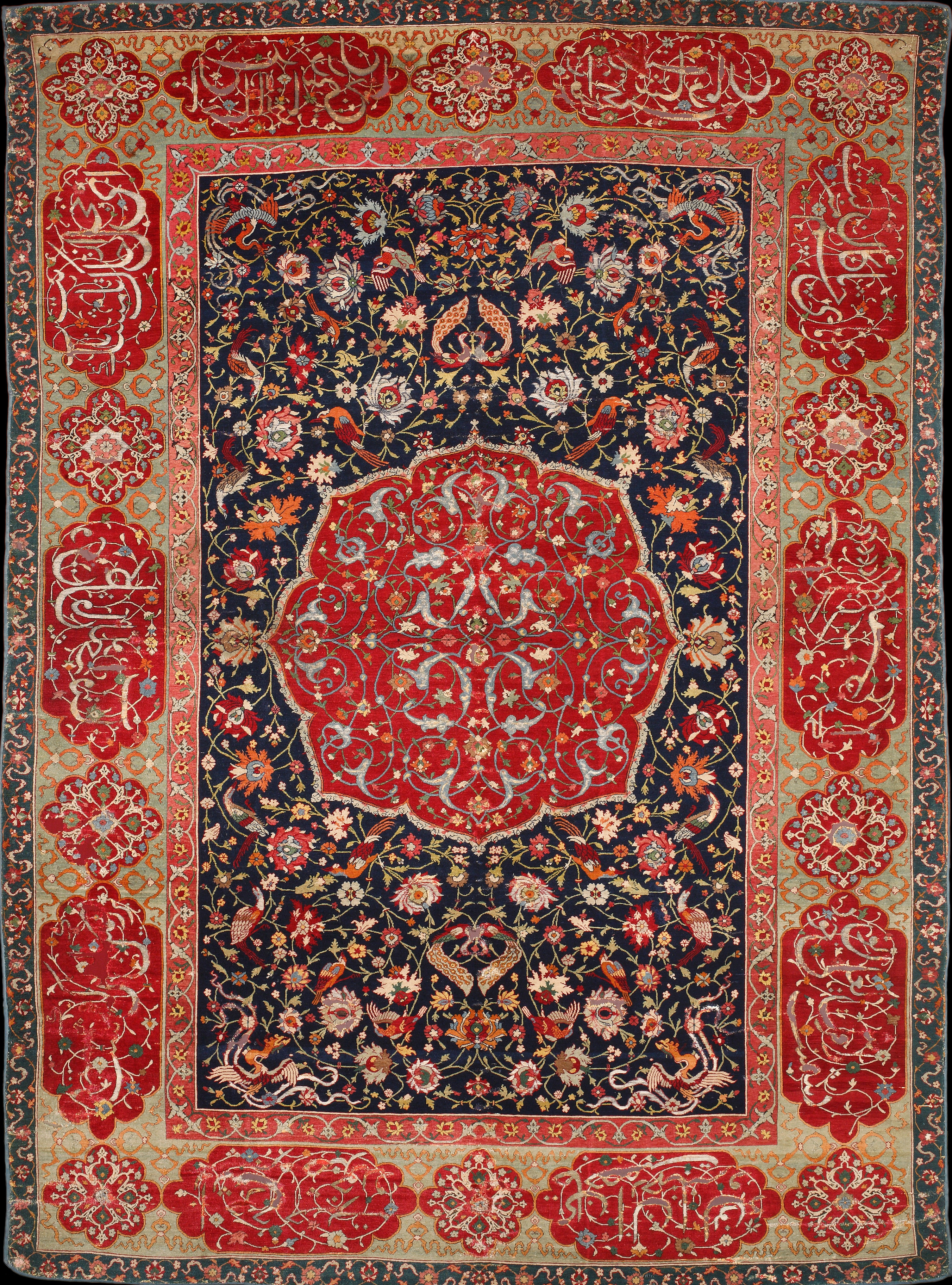 So-called Salting carpet, wool, silk and metal thread. about 1600. 226 × 162 cm. About a ottepas-shaped medallion with arabesques is a rectangular panel with phoenixes and other exotic birds in tendrils with Chinese-inspired flowers. The broadest of the three surrounding borders have ten fields with Persian verses written in Nastaliq - a mirror. The color scheme is very varied and supplemented with silver thread.The rug if decoration clearly reflects the Safavid court style around 1600, belongs to a group which for a time thought was Turkish copies 19th century older Persian originals. This assumption has now been disproved by historical, stylistic, and especially technological arguments.